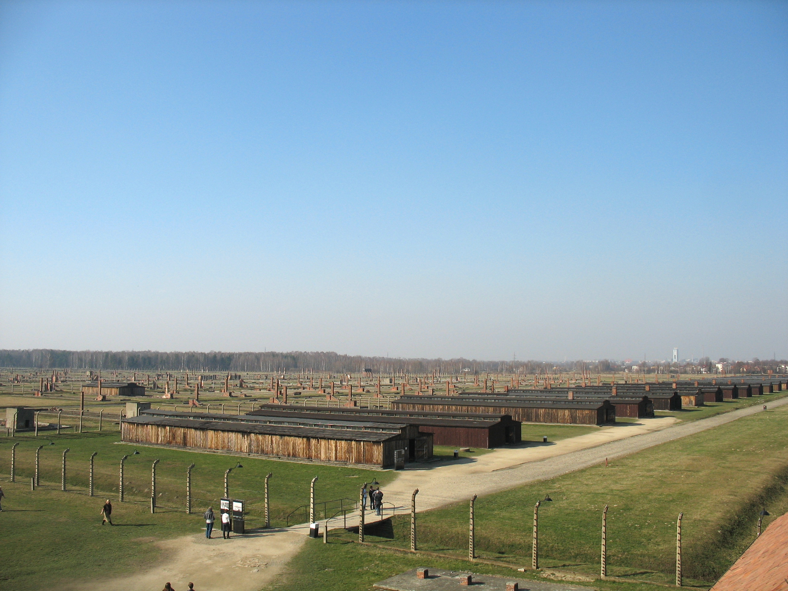 the camp from the main tower